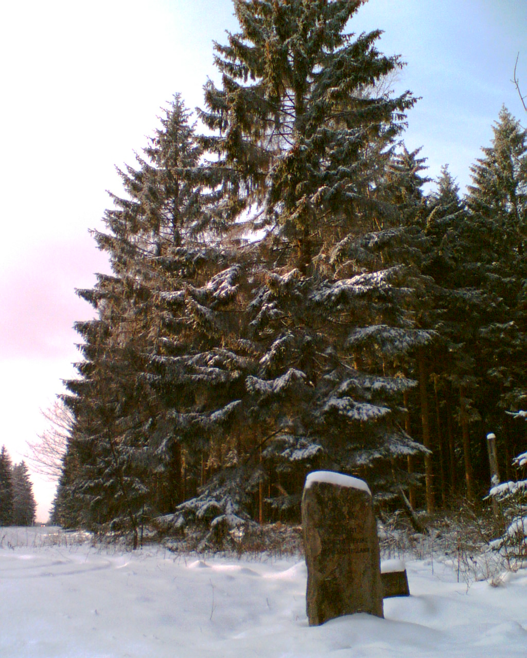 summit region of Grosse Bloesse hill, Solling, Germany